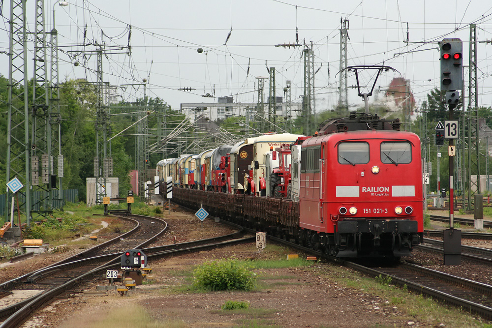 A freight train carrying the equipment of the Roncalli circus.